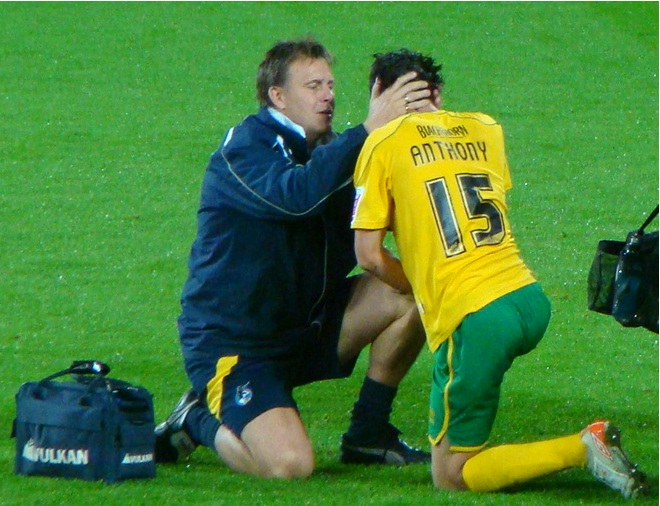 Cardiff City V Bristol Rovers, Football League Cup 2nd Round, Cardiff City Stadium